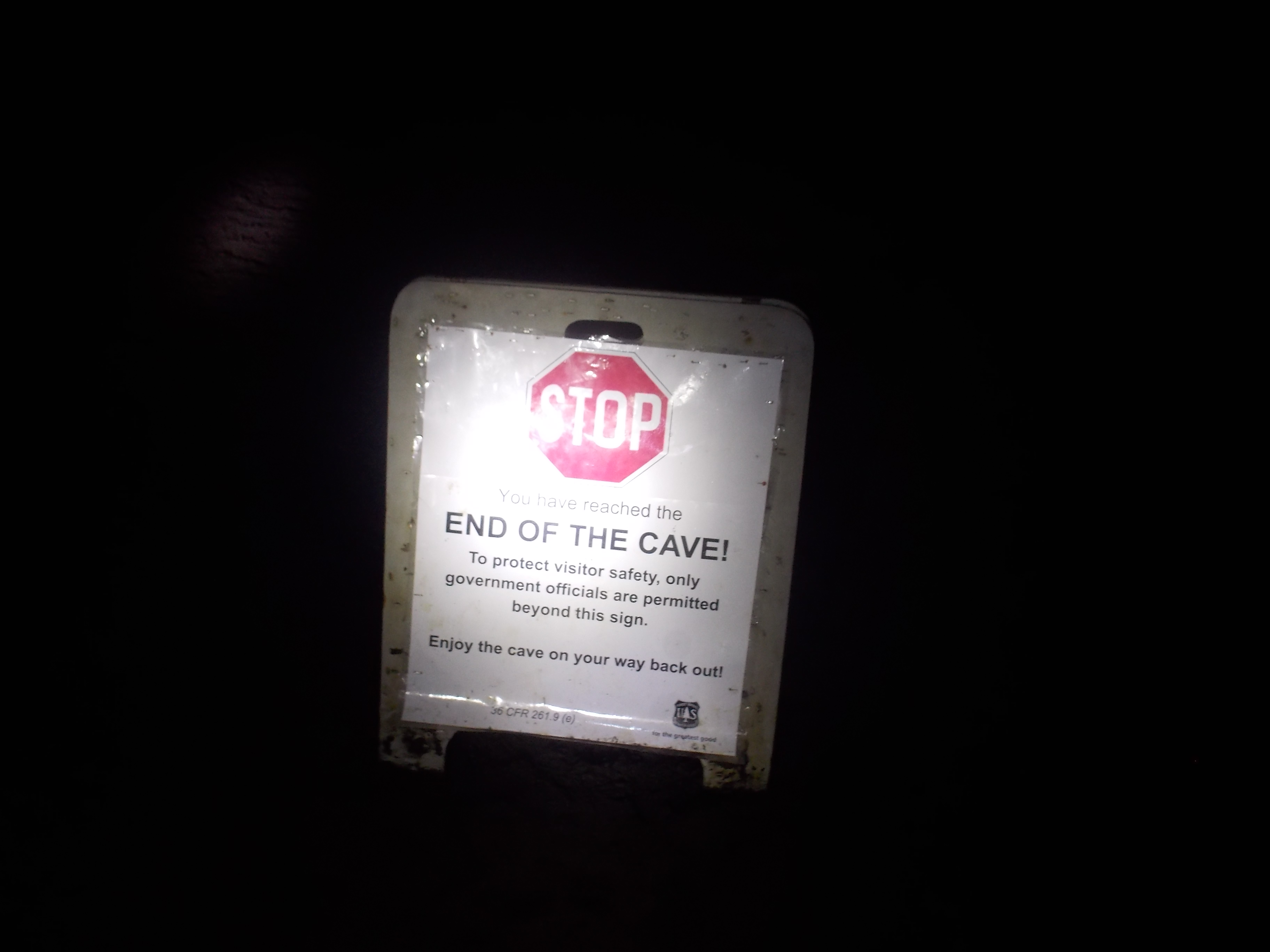 Lava River Cave in Deschutes County, Oregon